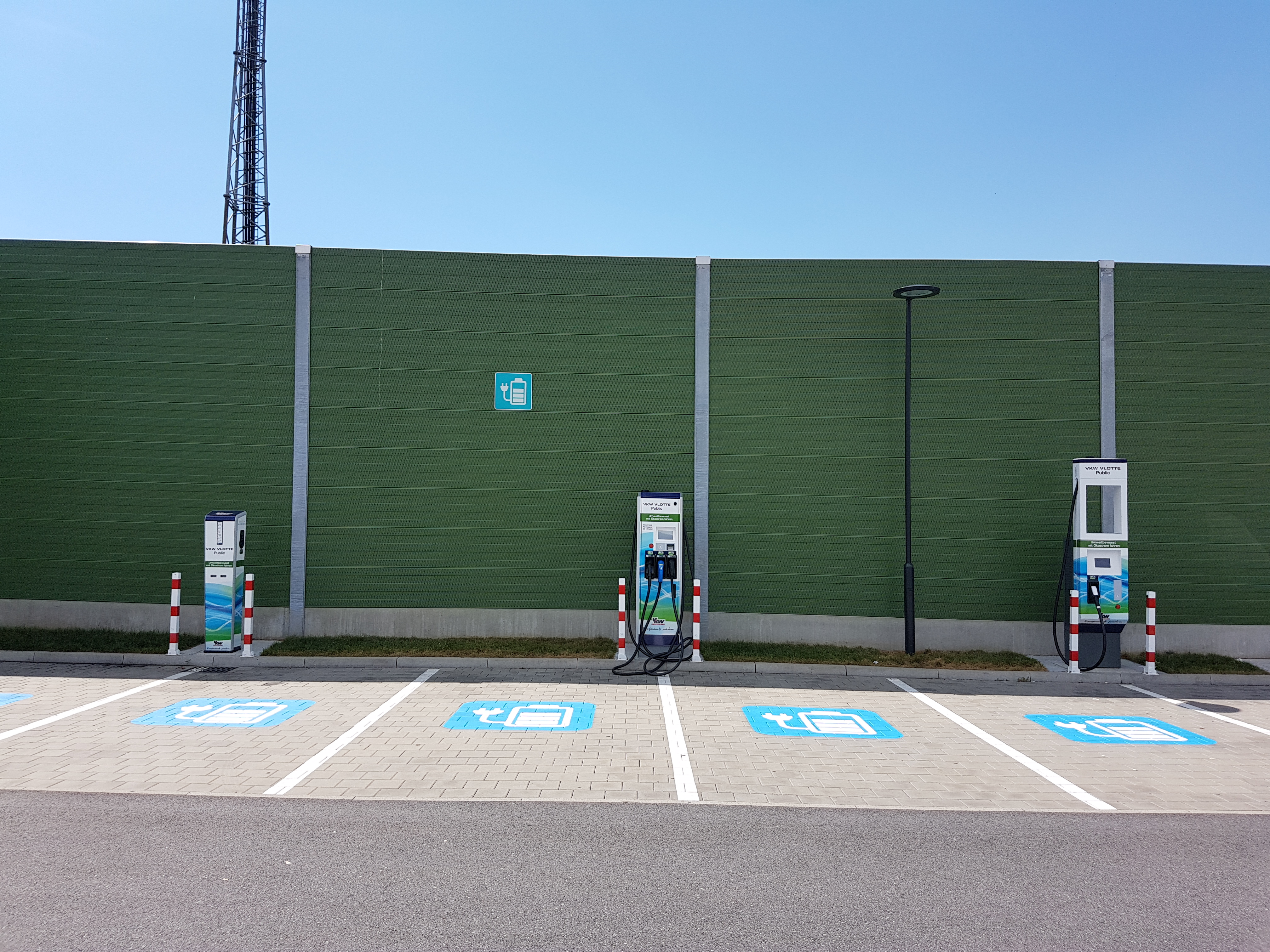 Electric car charging station at the Rest area "Bodensee" ("Lake Constance") in the community Hörbranz in Vorarlberg, Austria.